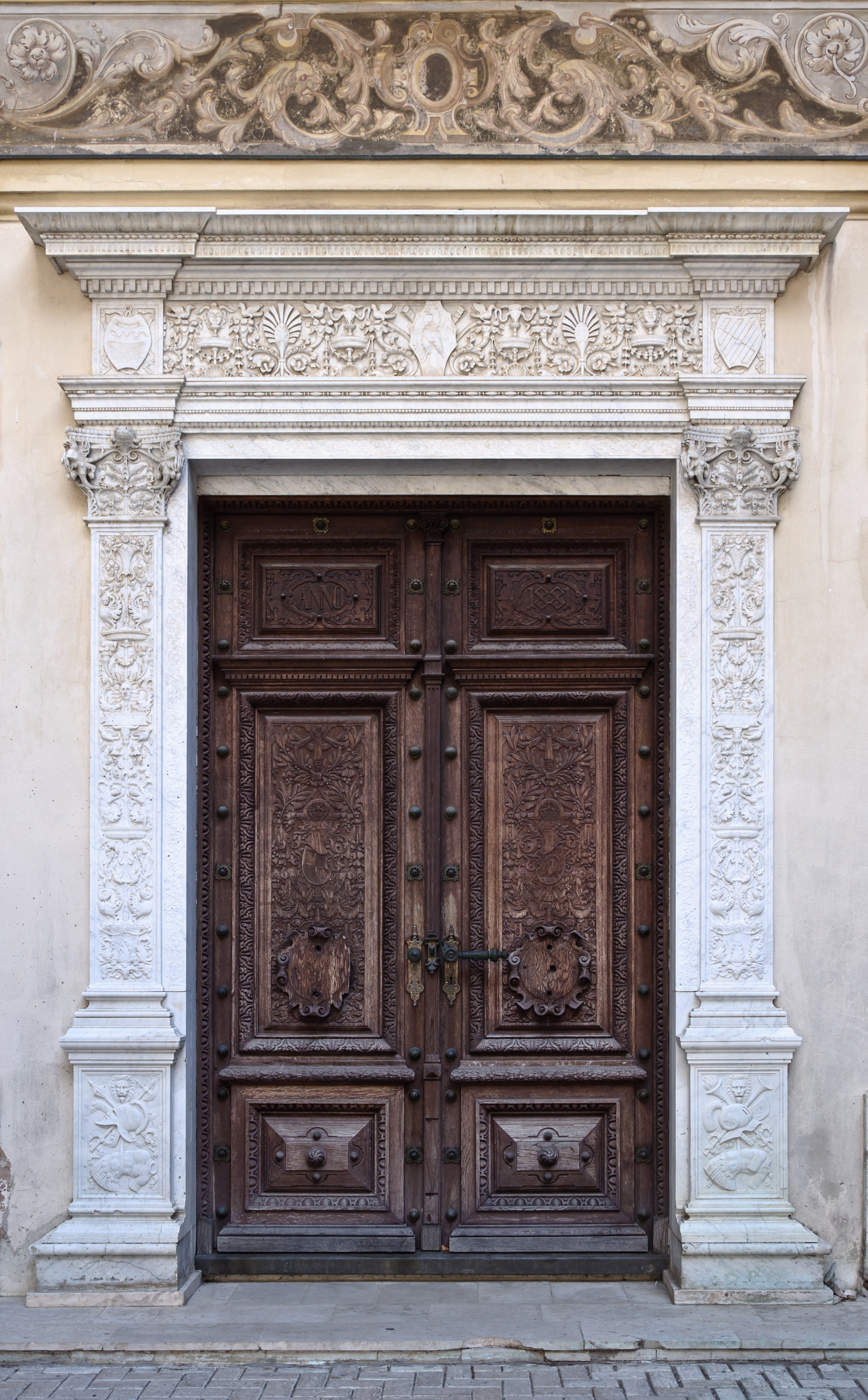 Peleș Castle, Sinaia, Romania: door in the inner courtyard, bearing the date of 1881, year when Prince Karl of Hohenzollern-Sigmaringen became King Carol I of Romania.